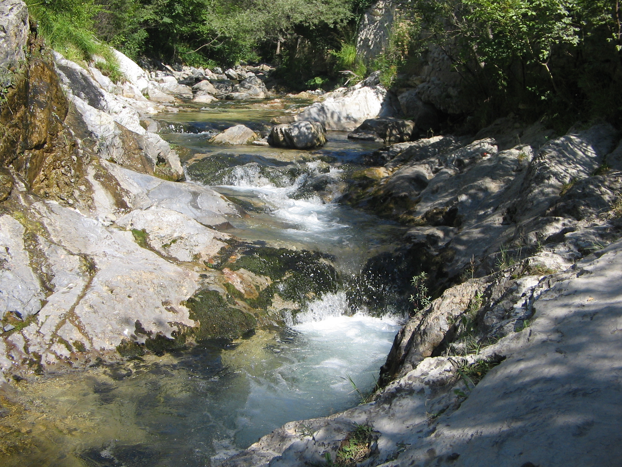 Leshnitsa River in Leshnitsa Reserve in Stara Zagora Province, Bulgaria